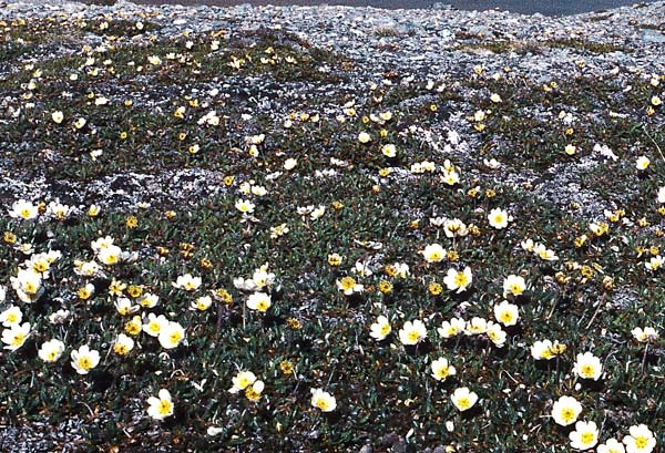 Mountain Avens, Dryas octopetala, Svalbard, July 2002, by Michael Haferkamp